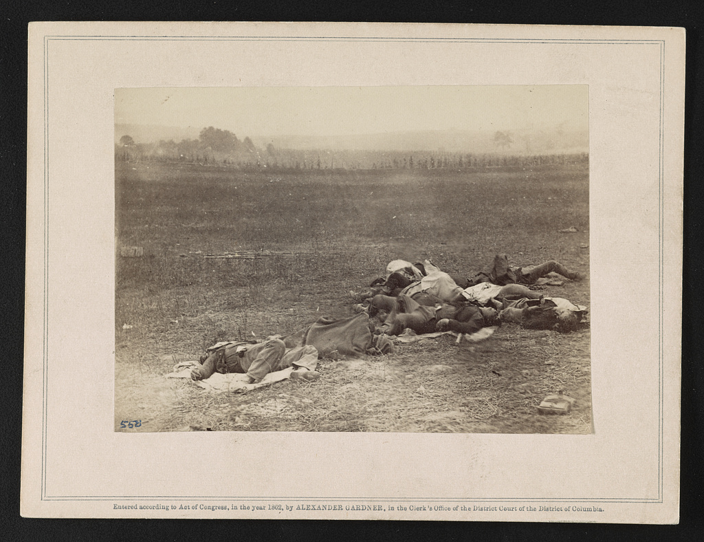 Photograph shows dead soldiers, members of the Irish brigade commanded by Gen. Thomas F. Meagher, on the battlefield of Antietam, 19th Sept., 1862.